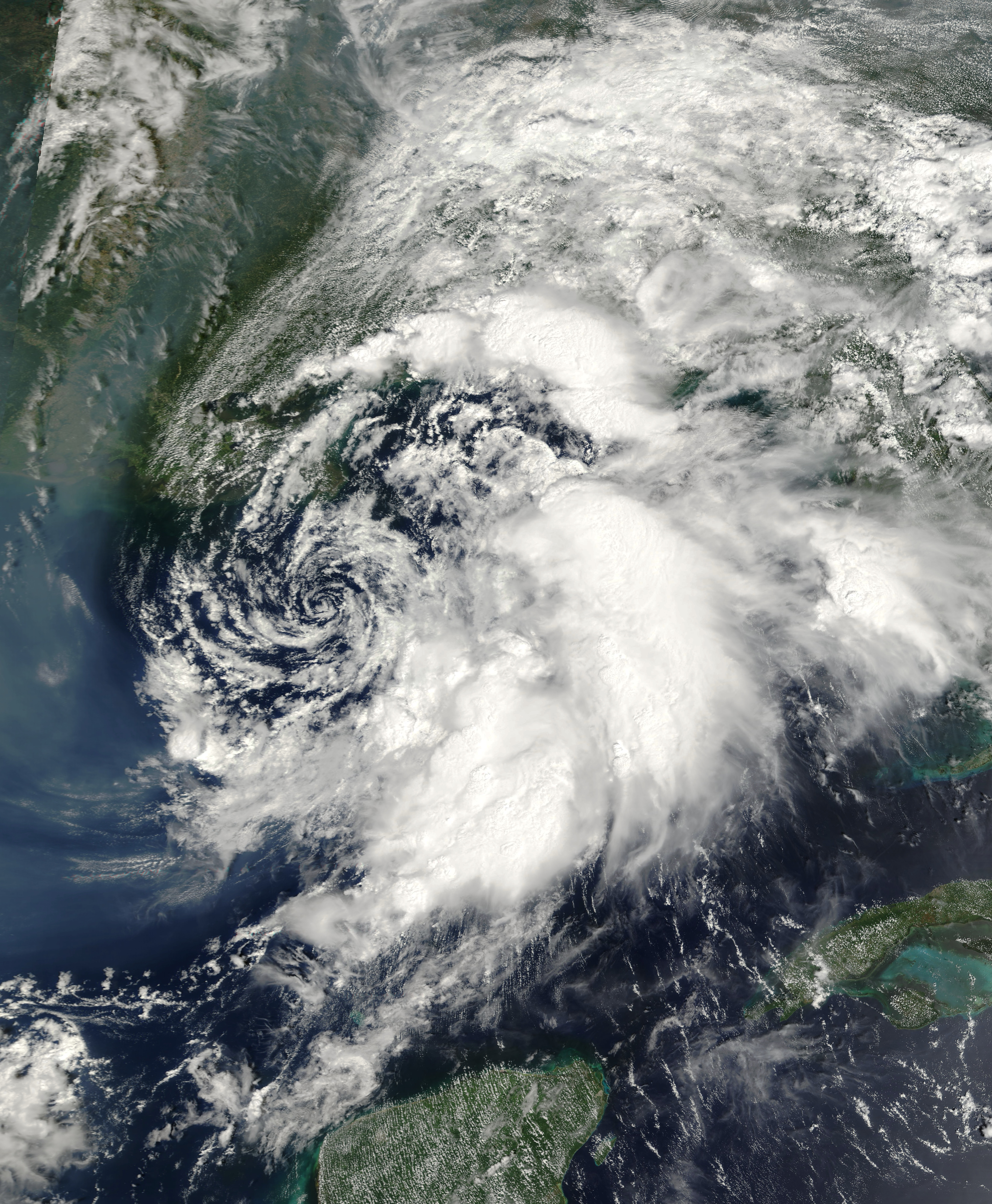 Tropical Storm Hanna near peak intensity in the Gulf of Mexico on September 13, 2002